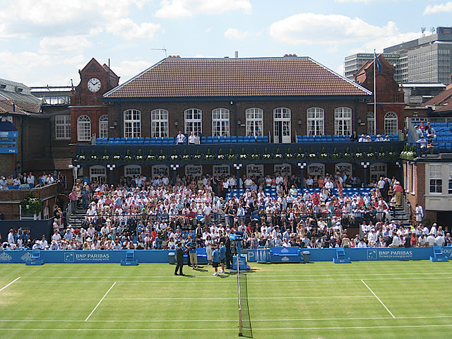 Centre Court at Queen's with John Inverdale doing a TV link